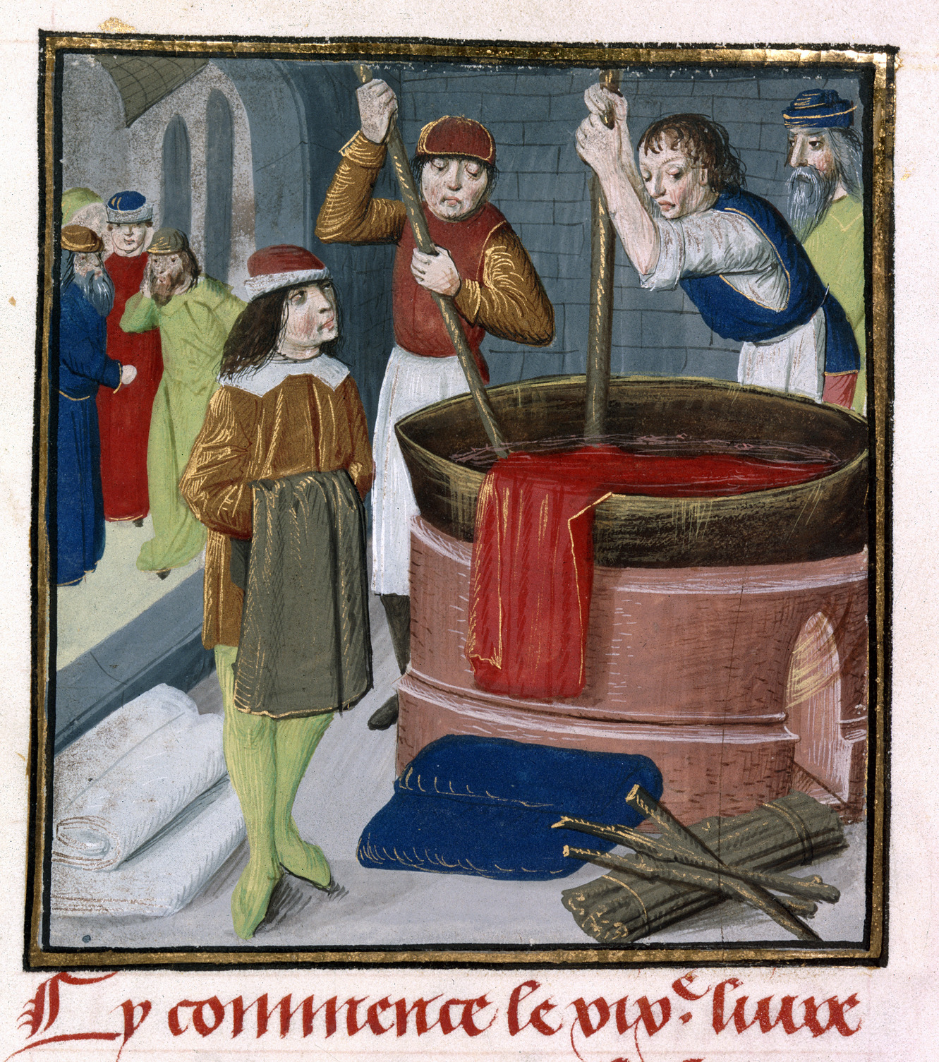 Dyers soaking red cloth in a heated barrel.